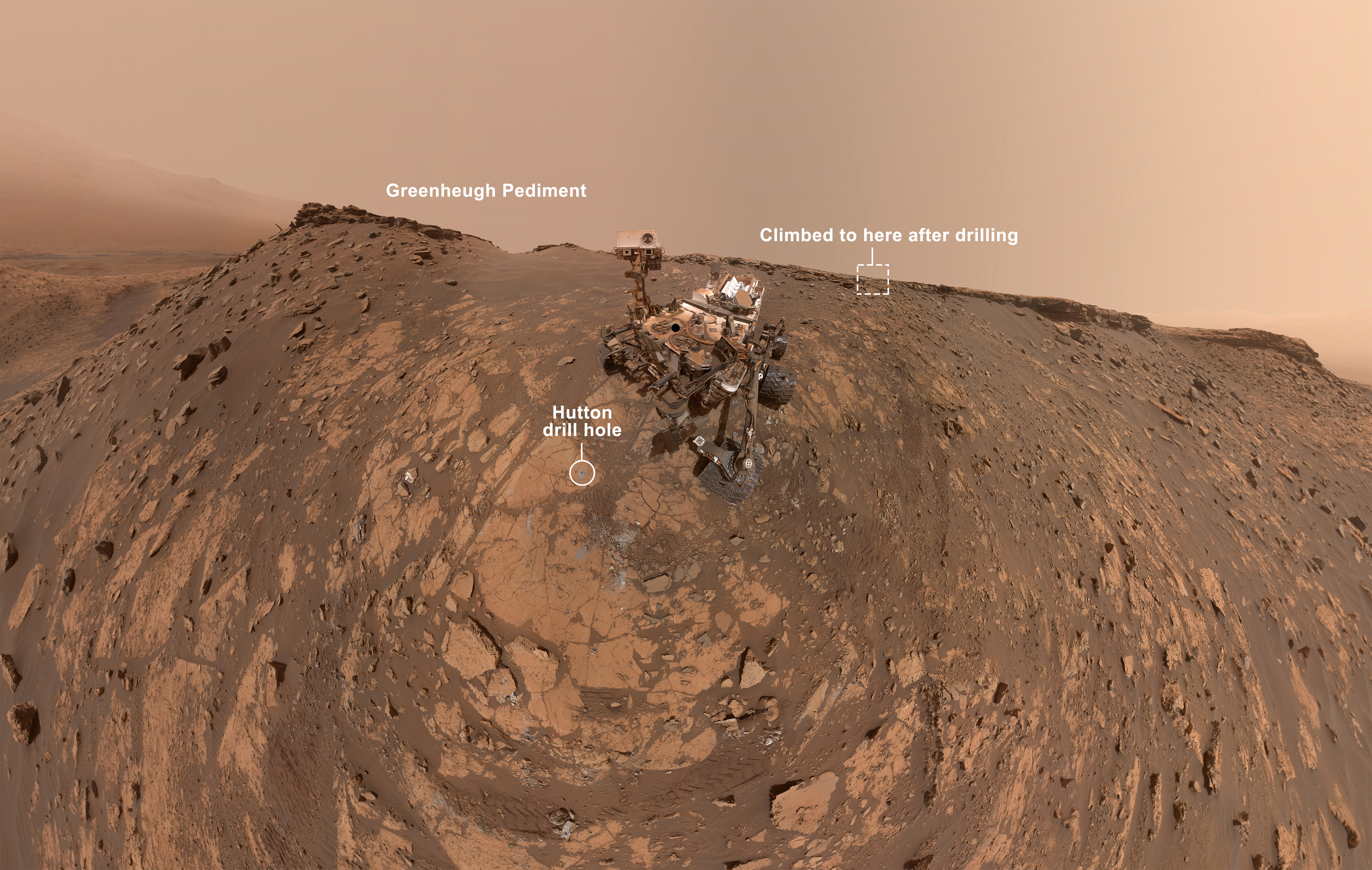 Curiosity at the Hutton Drill Site - March 20, 2020 This selfie was taken by NASA's Curiosity Mars rover on Feb. 26, 2020 (the 2,687th Martian day, or sol, of the mission). The crumbling rock layer at the top of the image is the Greenheugh Pediment, which Curiosity climbed soon after taking the image. Directly to the left of Curiosity's foremost wheel is a hole the rover drilled at a rock feature called "Hutton." The selfie includes 86 individual images taken by the Mars Hand Lens Imager (MAHLI) camera on the end of Curiosity's robotic arm. The images were then stitched into a panorama. An annotated version of the selfie is also included. MAHLI was built by Malin Space Science Systems in San Diego. NASA's Jet Propulsion Laboratory, a division of Caltech in Pasadena, manages the Mars Science Laboratory Project for the NASA Science Mission Directorate in Washington. JPL designed and built the project's Curiosity rover. More information about Curiosity is online at and